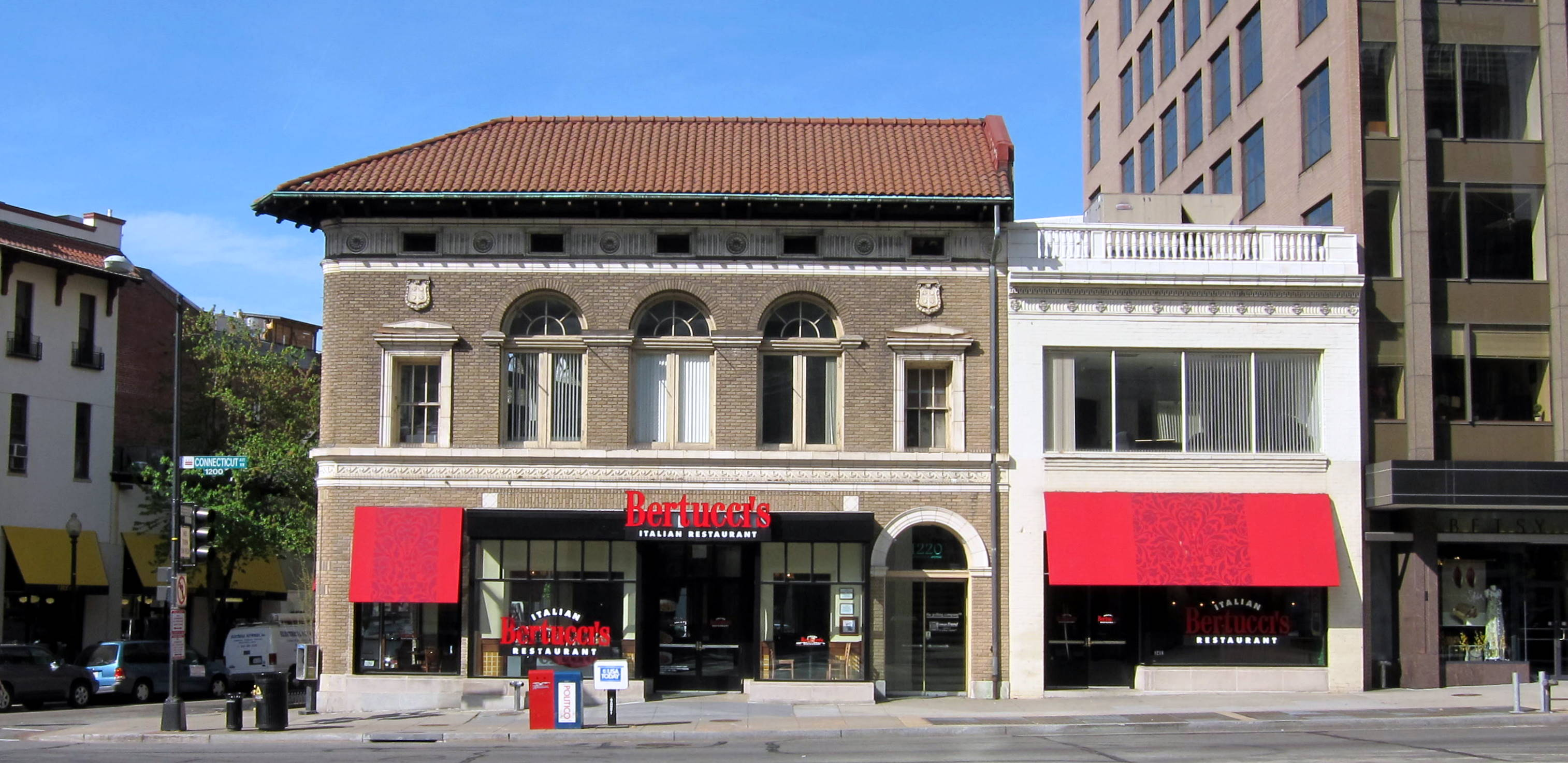 Bertucci's, an Italian restaurant, located at 1218 Connecticut Avenue, N.W., in the Dupont Circle neighborhood of Washington, D.C. The adjoining buildings are designated as contributing properties to the Dupont Circle Historic District, listed on the National Register of Historic Places in 1978.